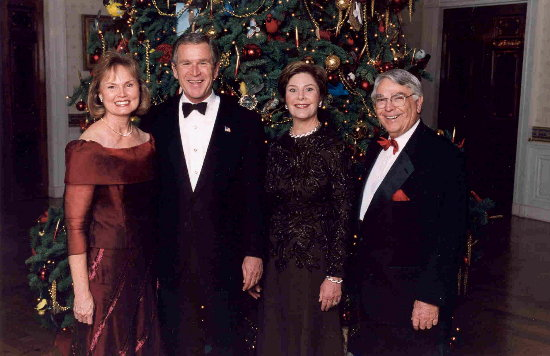 White House Christmas Ball December 2004